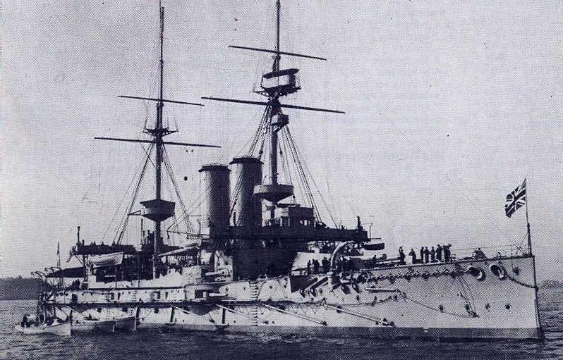 HMS Exmouth (1901) in Weymouth Bay ca. 1906